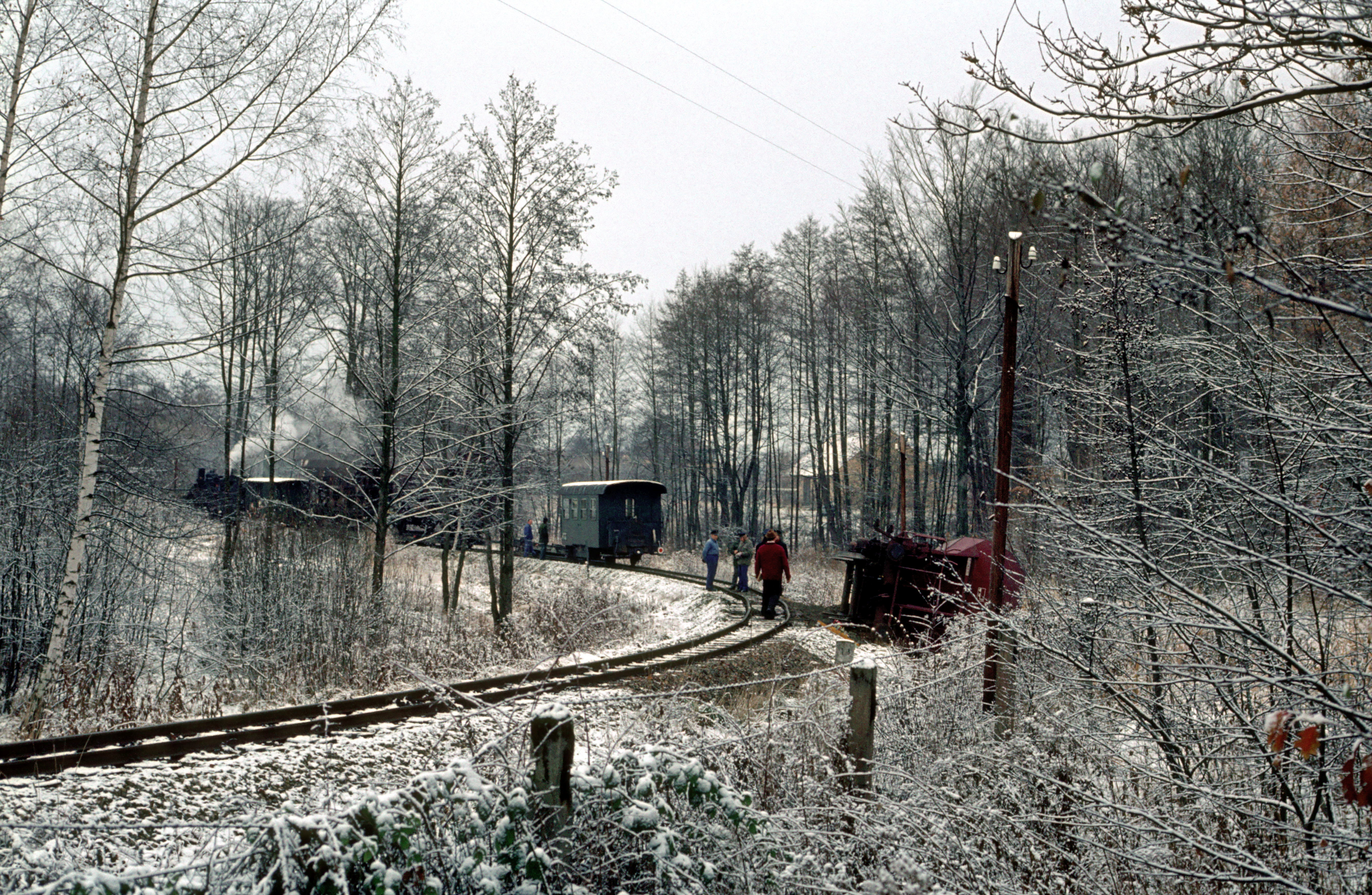 Derailed Rollwagen train between Gmünd and Böhmzeil. A standard gauge hopper wagon fell from the transporter in a curve.